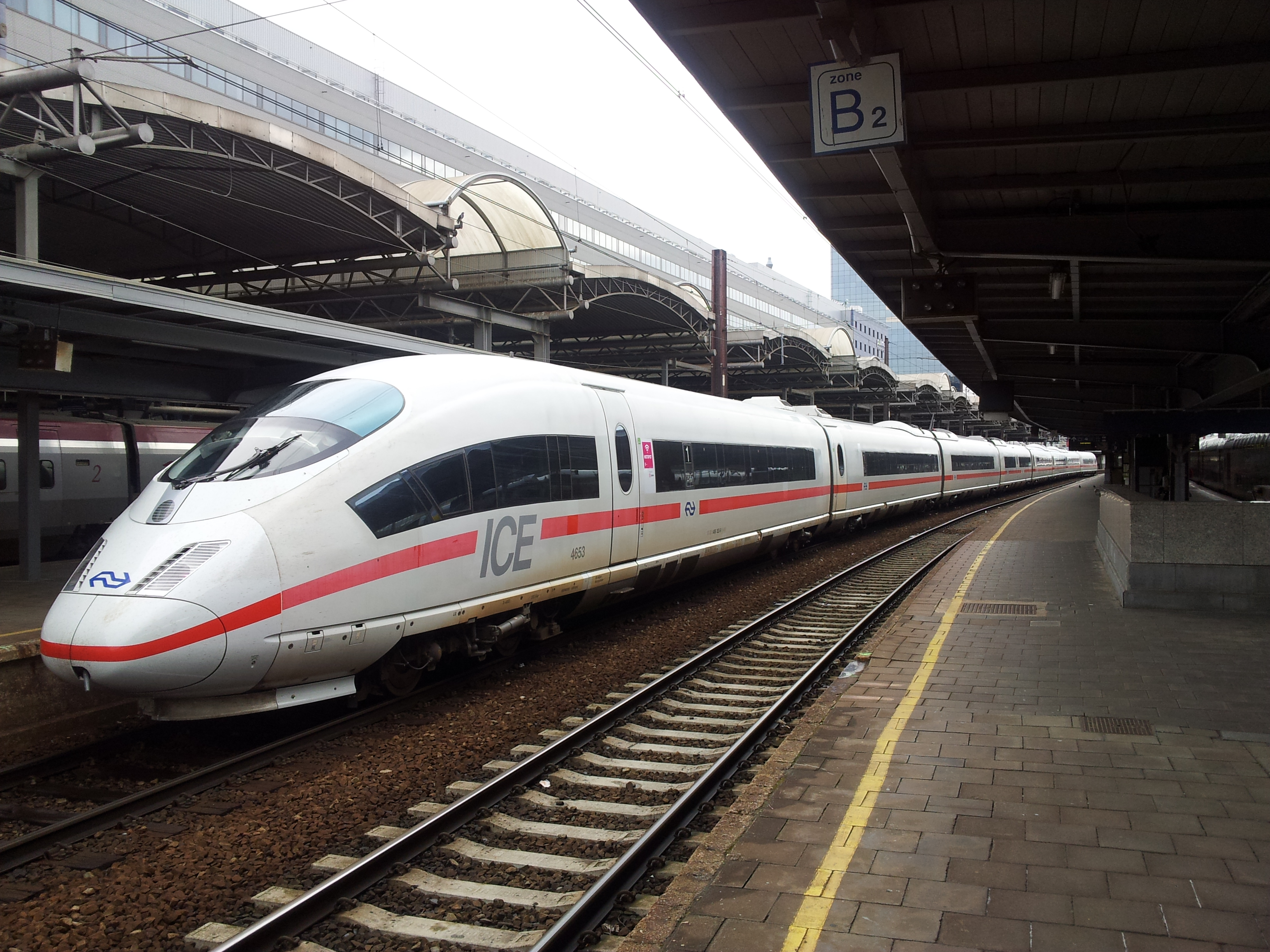 ICE 4653 Nederlandse Spoorwegen at Brussels Zuid railway station